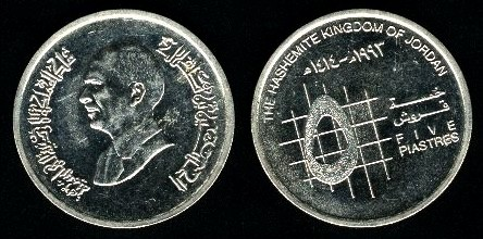 5 Piastres